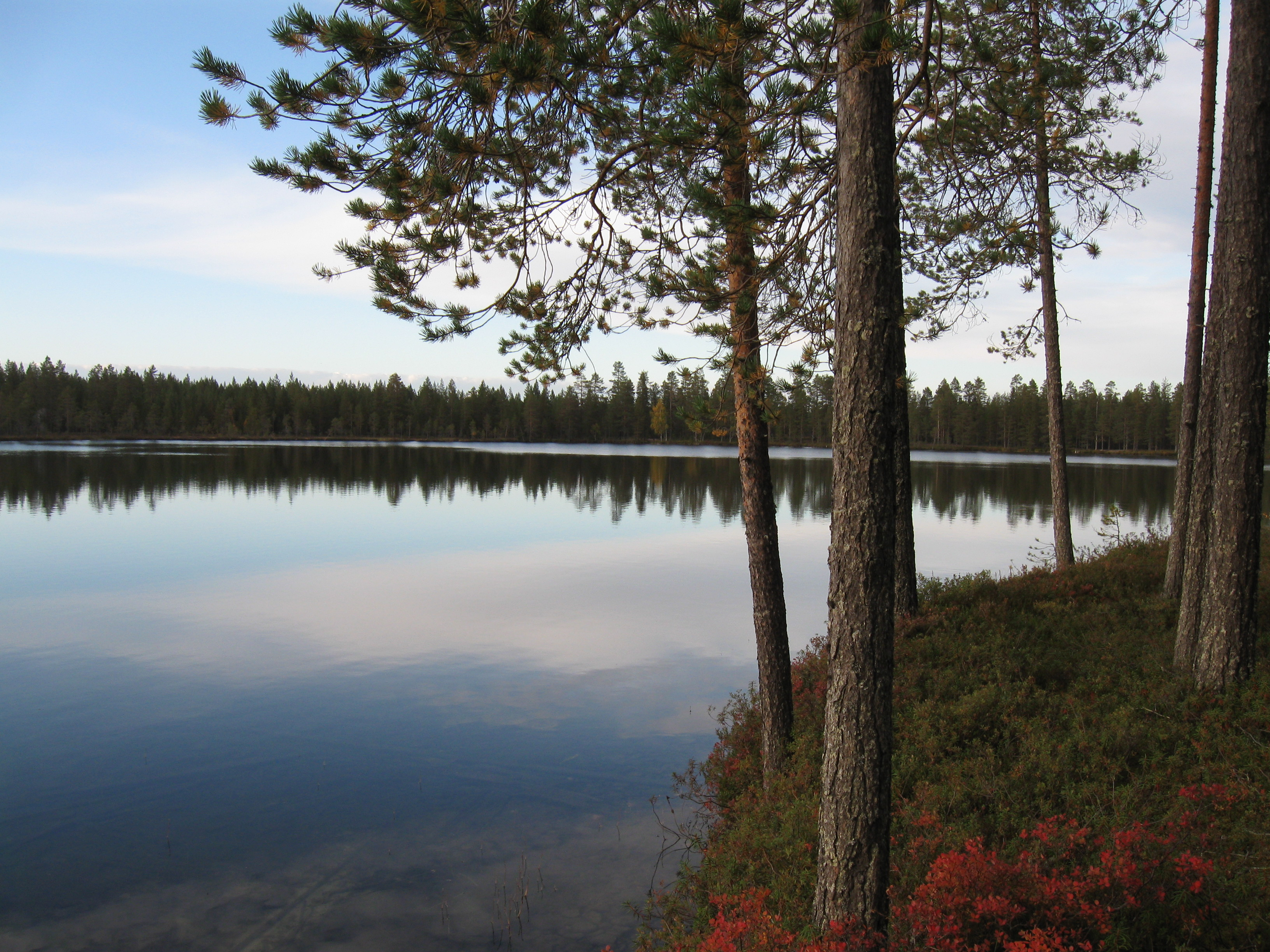 The small lake Ahvenlampi in Juorkuna, Utajärvi, Finland.